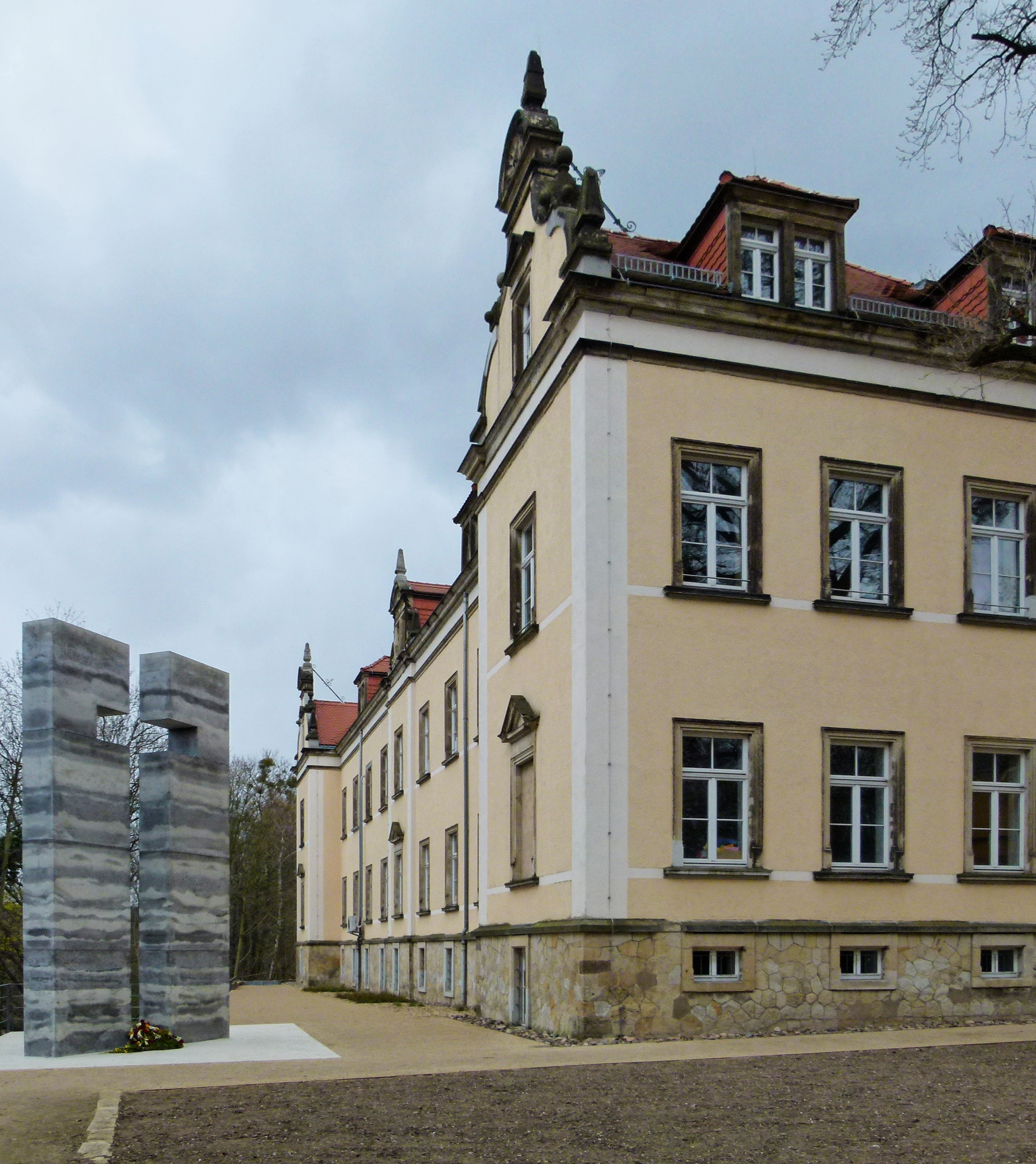 Memorial cross in remembrance of the 13,720 persons murdered in the Nazi's killing institute Pirna-Sonnenstein in Pirna, Saxony